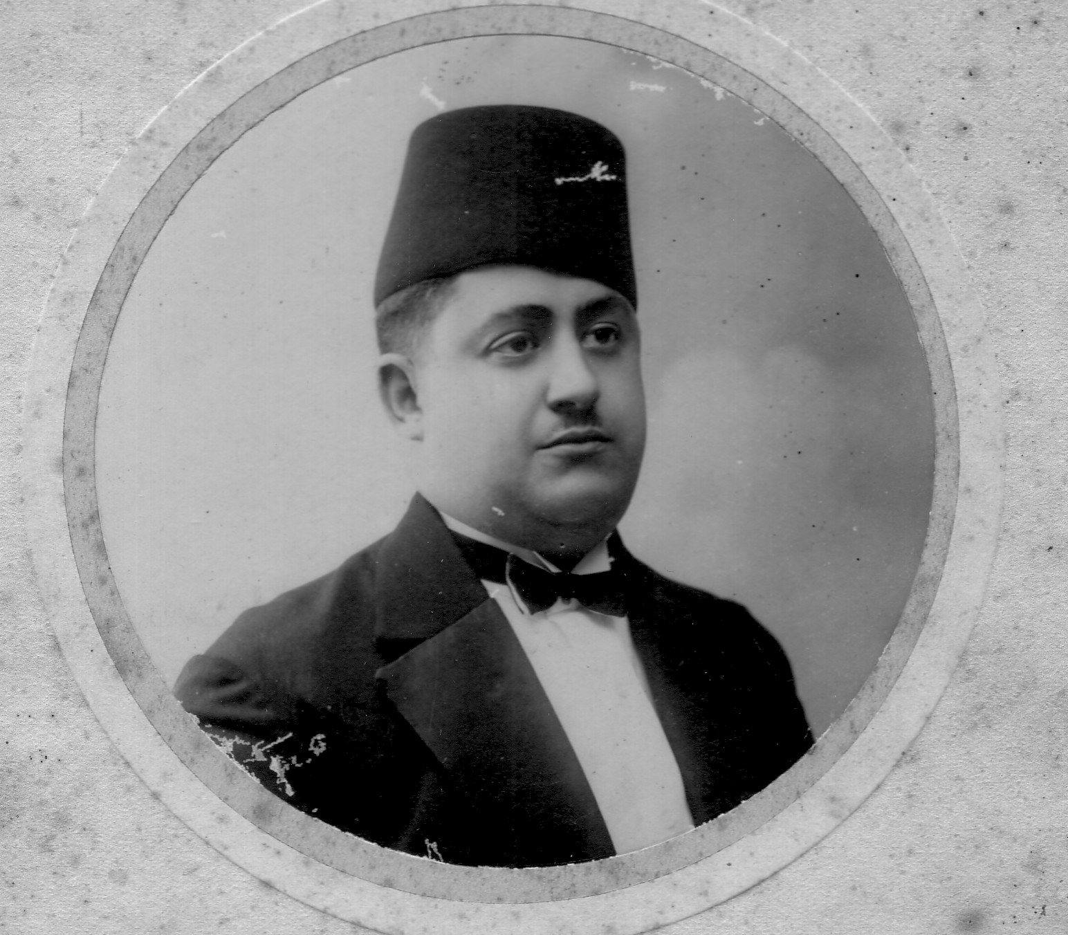 Portrait of Mahieddine Bachtarzi